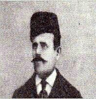 Portrait of Josif Bageri (1870 - 1915)